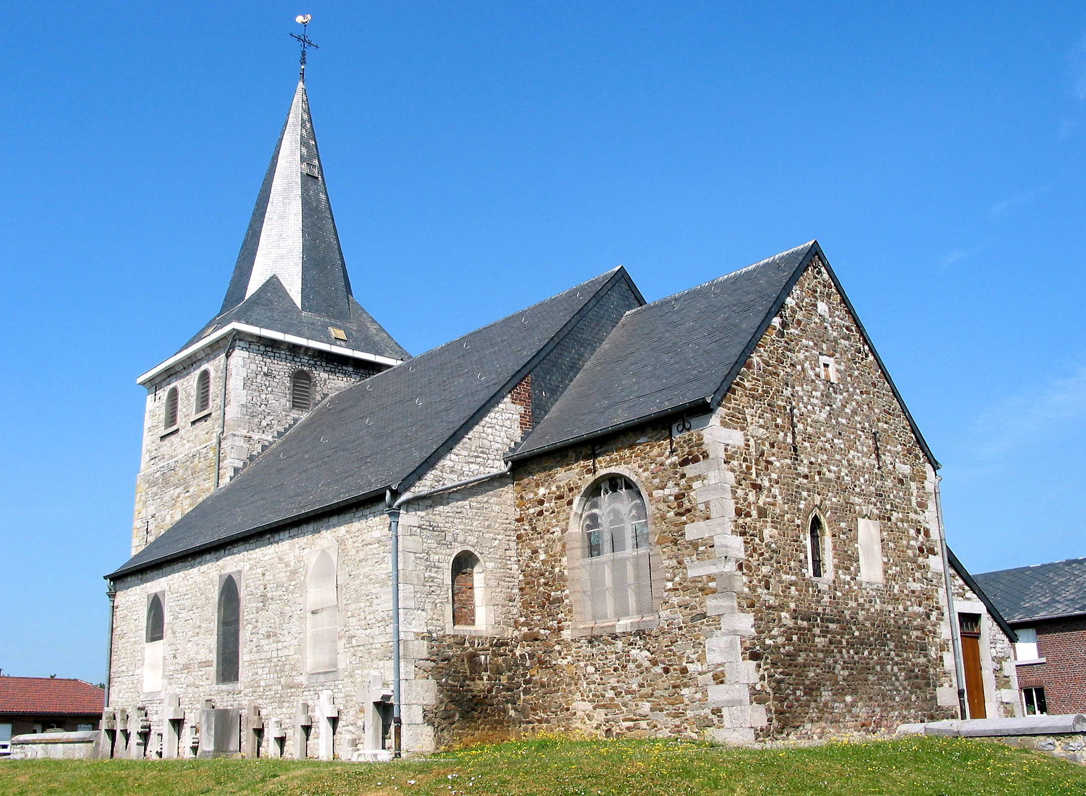 Villers-le-Bouillett (Belgium), the Saint Martin's church. Walon: Vilé-li-Bouyèt (Bèljike), l'èglîje Sint-Maurtin.